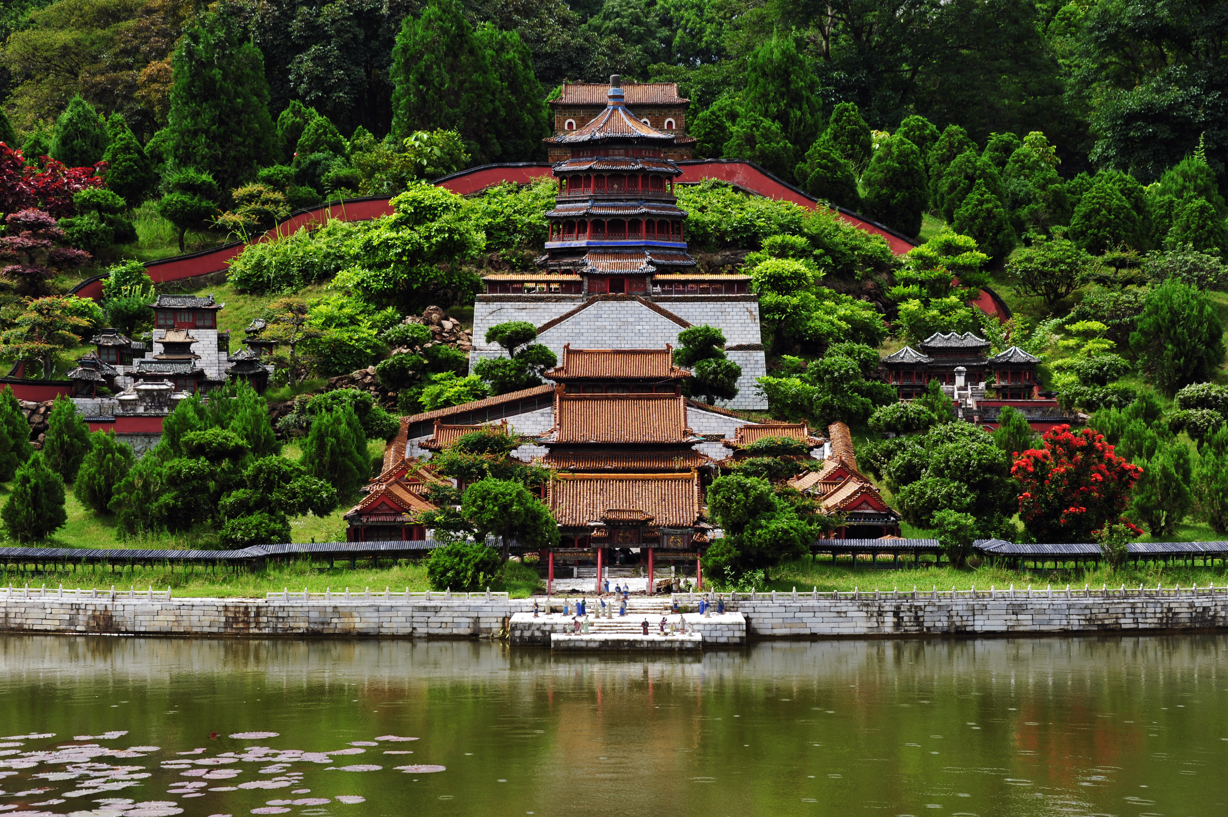 Shenzhen China Splendid China 2011